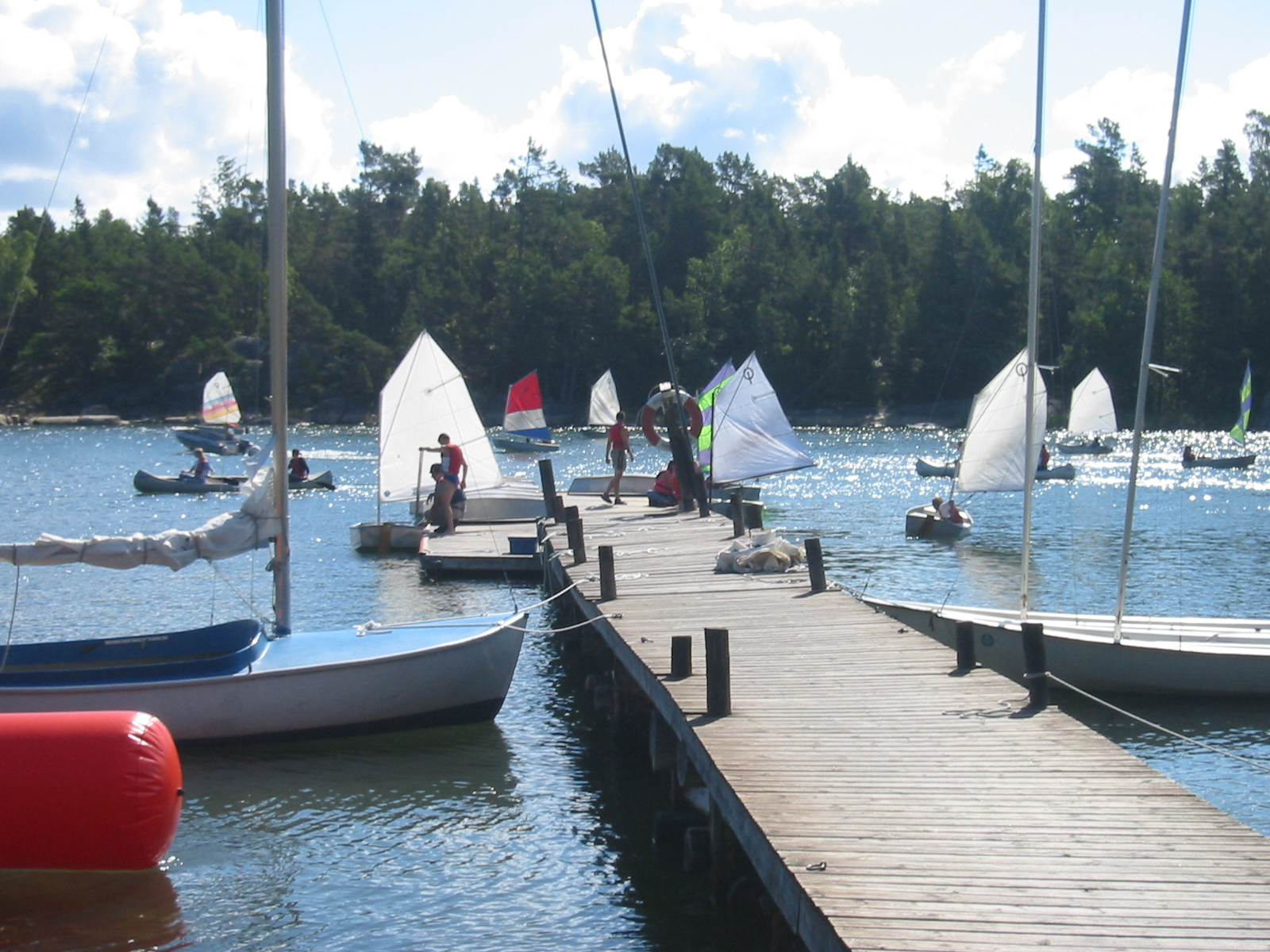 Sailing in the protected harbour of Vässarö